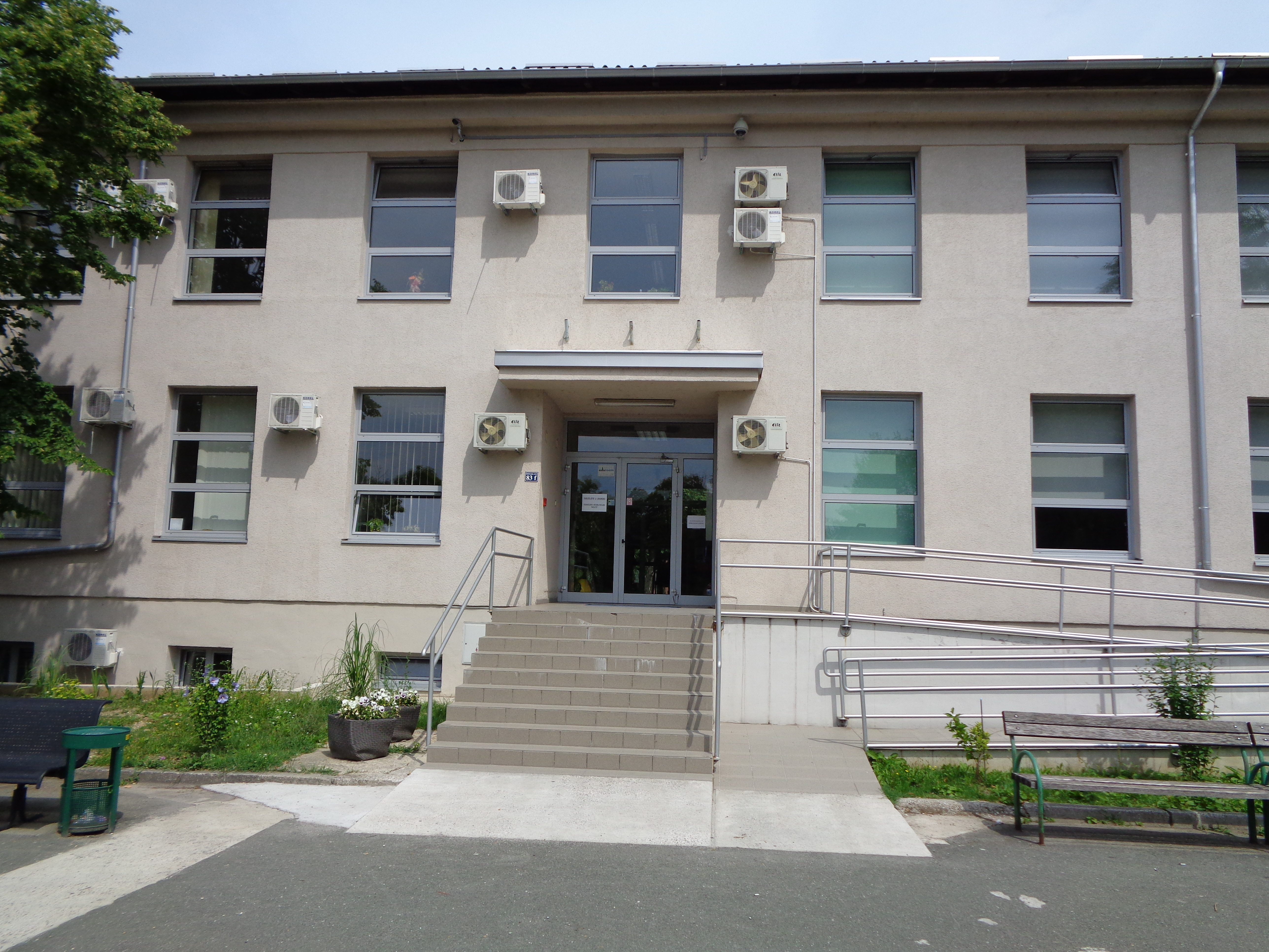 University of Zagreb - Faculty of Special Education and Rehabilitation (entrance)